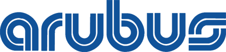 Logo of Arubus, the greater public transport company of Aruba.